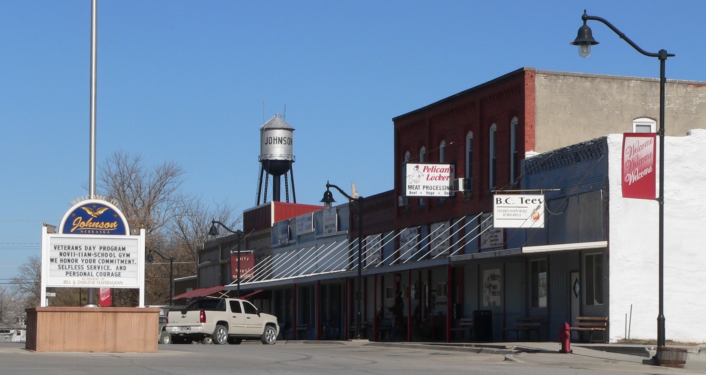 Johnson, Nebraska: east side of Main Street, looking north from south of 2nd Street.